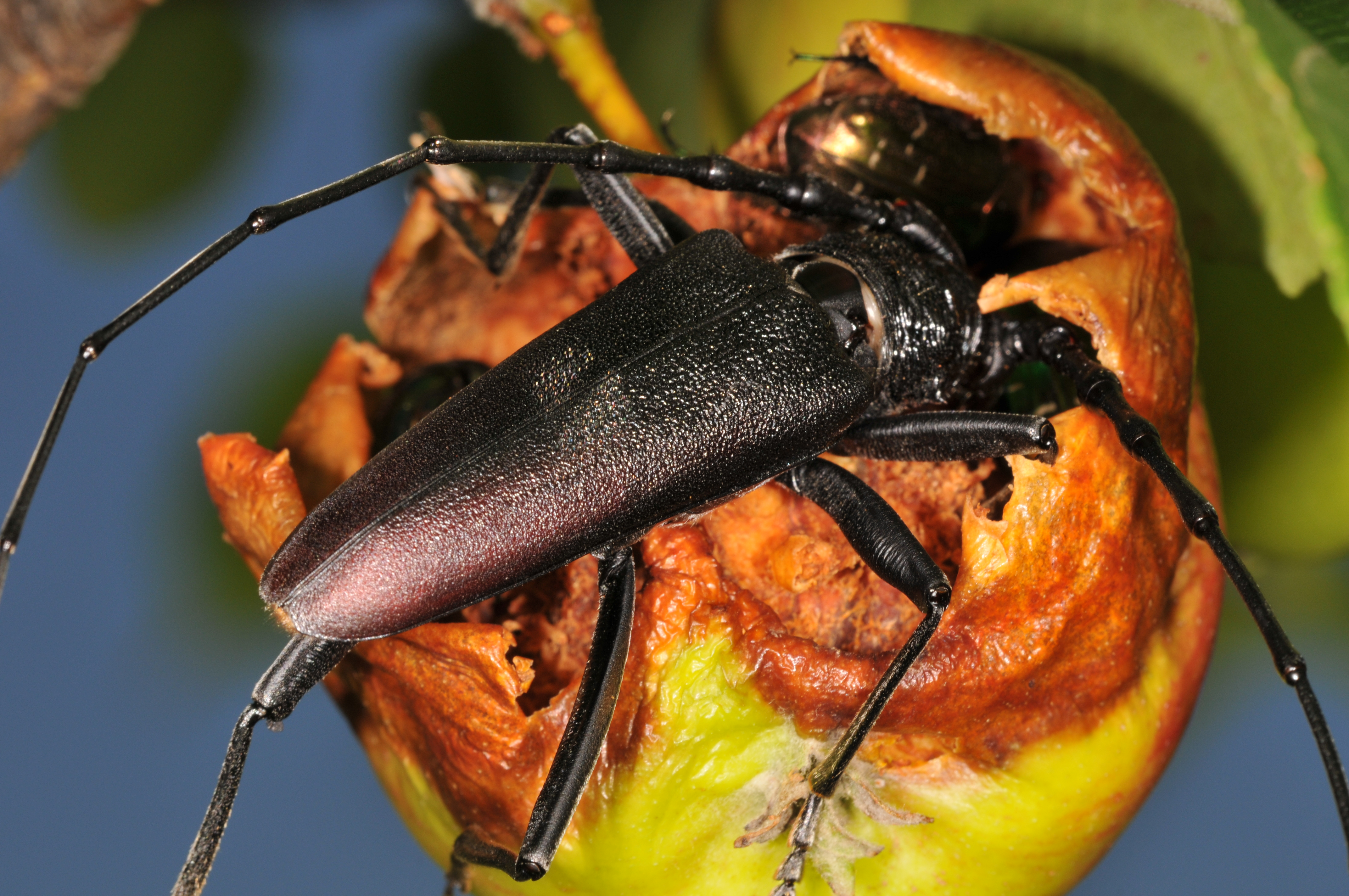 Cerambyx cerdo, male, Croatia, Istria, Brseč 15 km south Lovran, 45°10`23,80``N 14°13`37,25``E